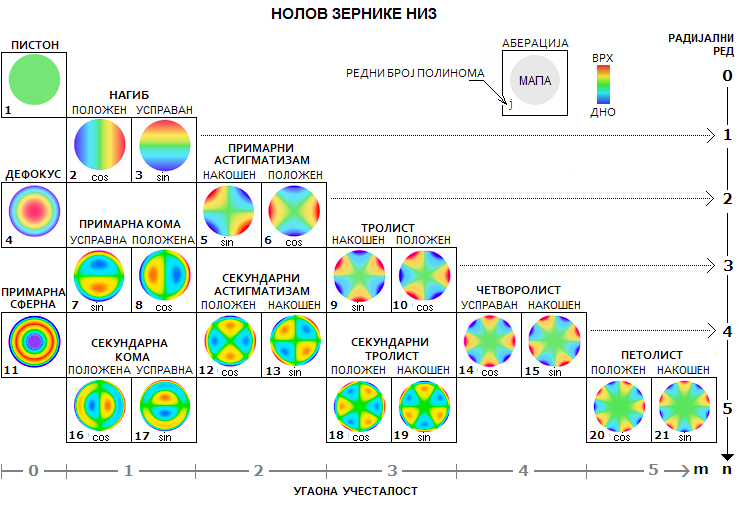 НОЛОВ ЗЕРНИКЕ НИЗ